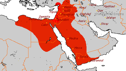 The Empires of saladdin